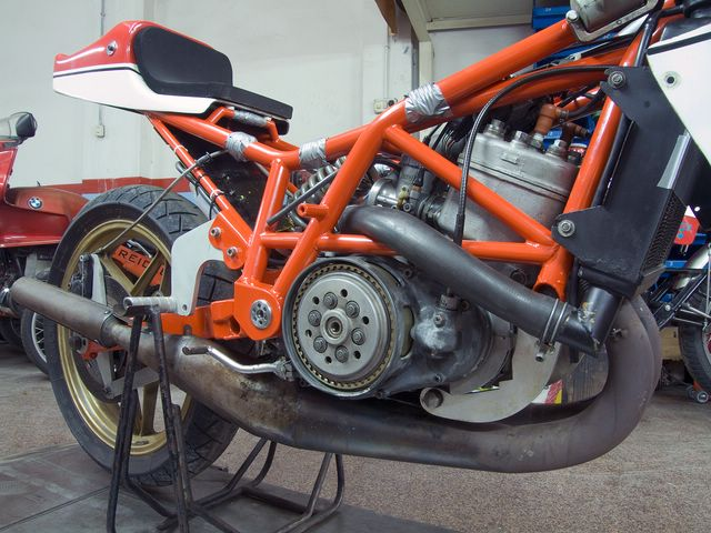 The motor Suzuki TR500 on a Bimota SB1